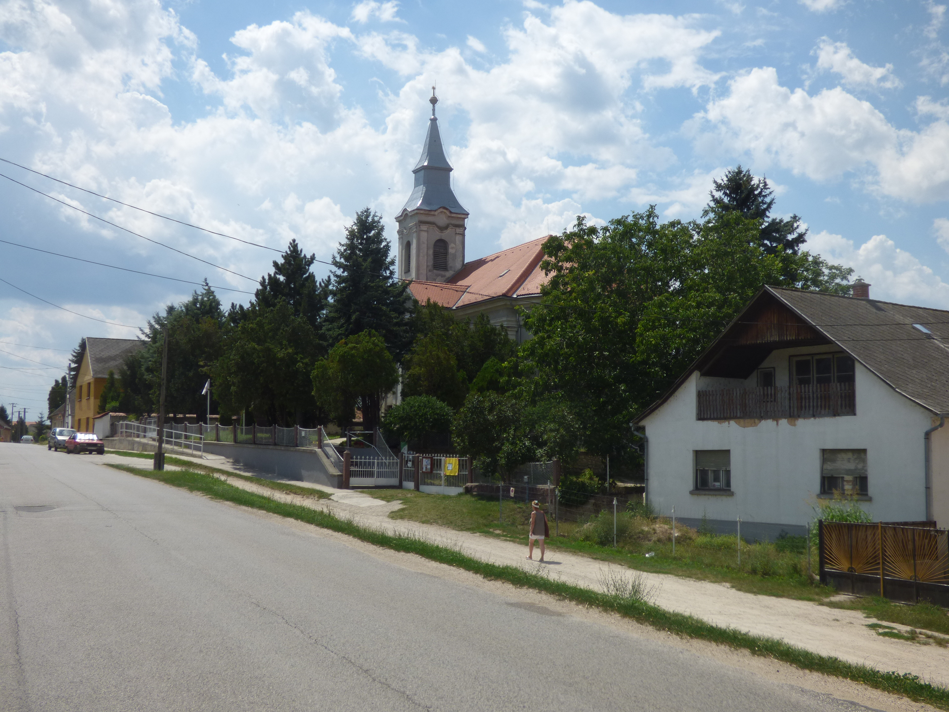 Papkeszi központja